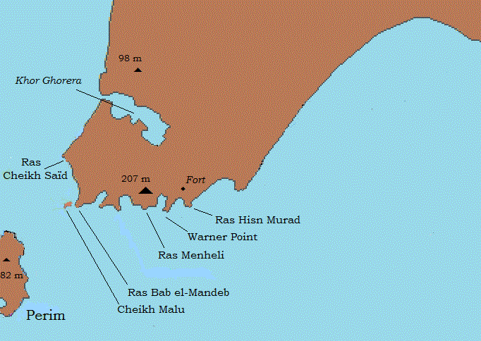 The peninsula of Sheikh Said (Cheikh Said, Cheik-Said, also called the Bab el-Mandeb Peninsula, the Ras Menheli Peninsula) facing the island of Perim, Strait of Bab el-Mandeb.